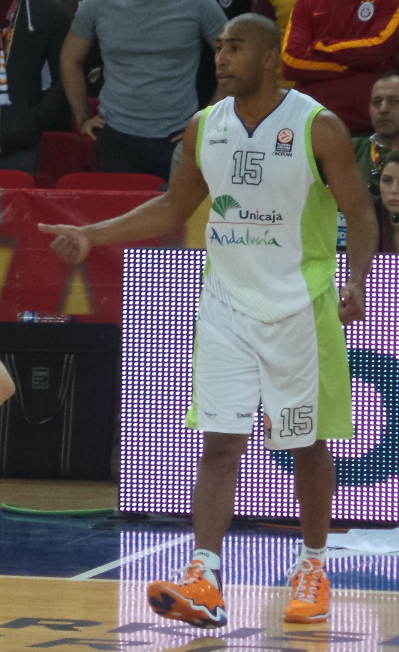 Jayson Granger